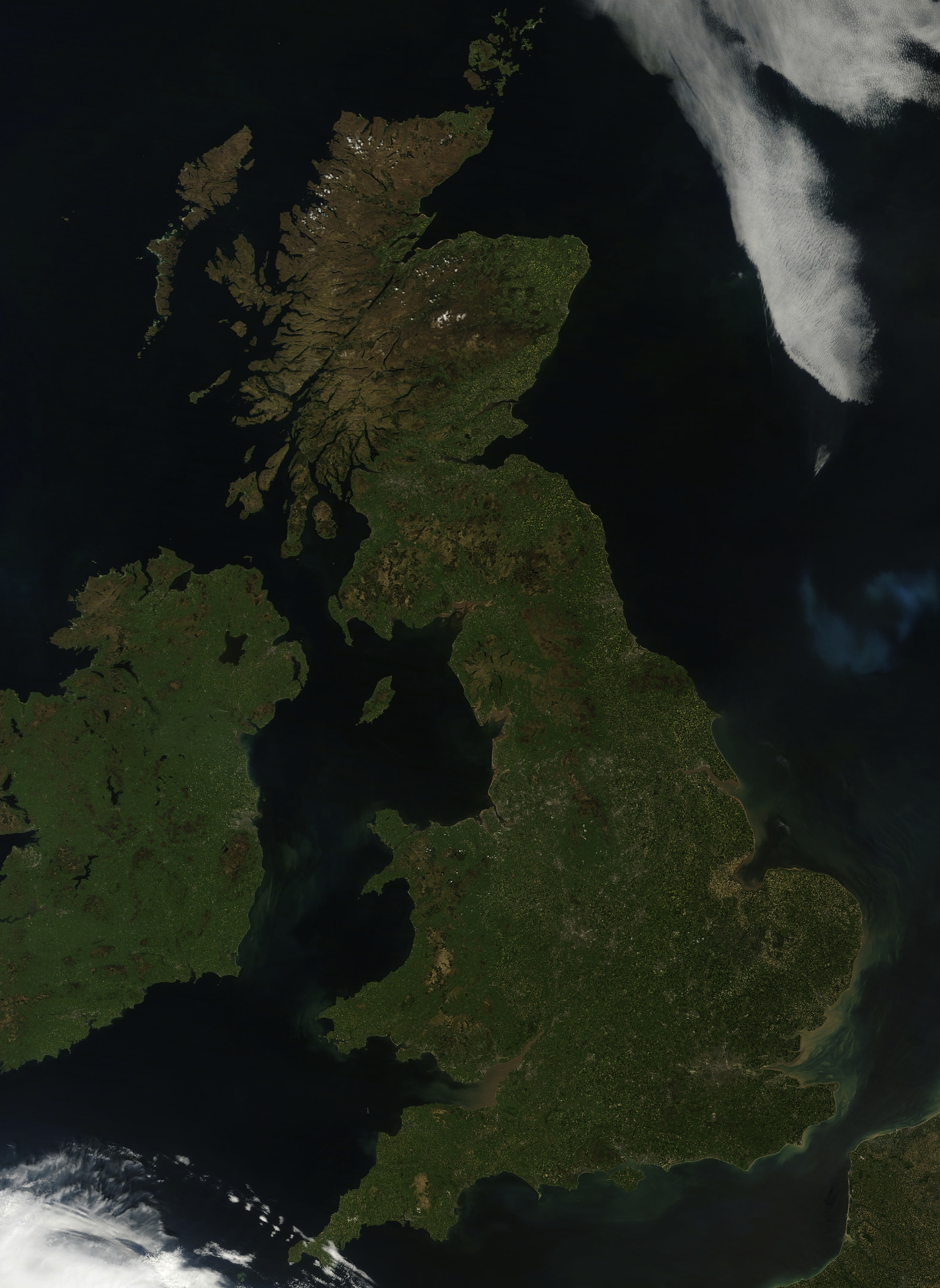 Satellite image of the United Kingdom. Shetland and Rockall are out of frame, north and west respectively.